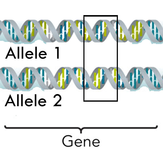 Genes are sections of DNA which "code" for physical traits. Genes may have different versions, or alleles, which will give different individuals different traits.